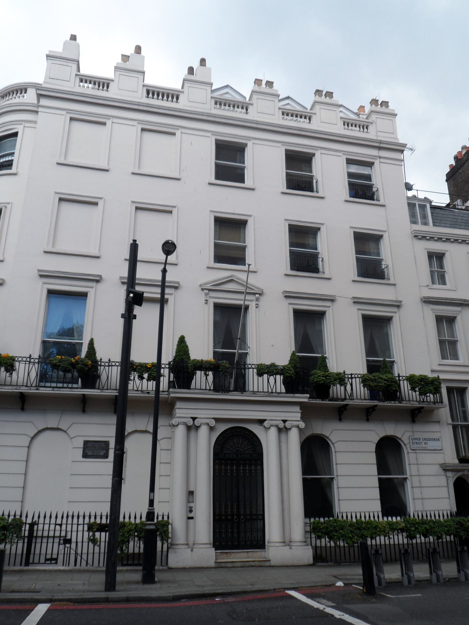 Here lived Benjamin Disraeli Earl of Beaconsfield from 1839 to 1873